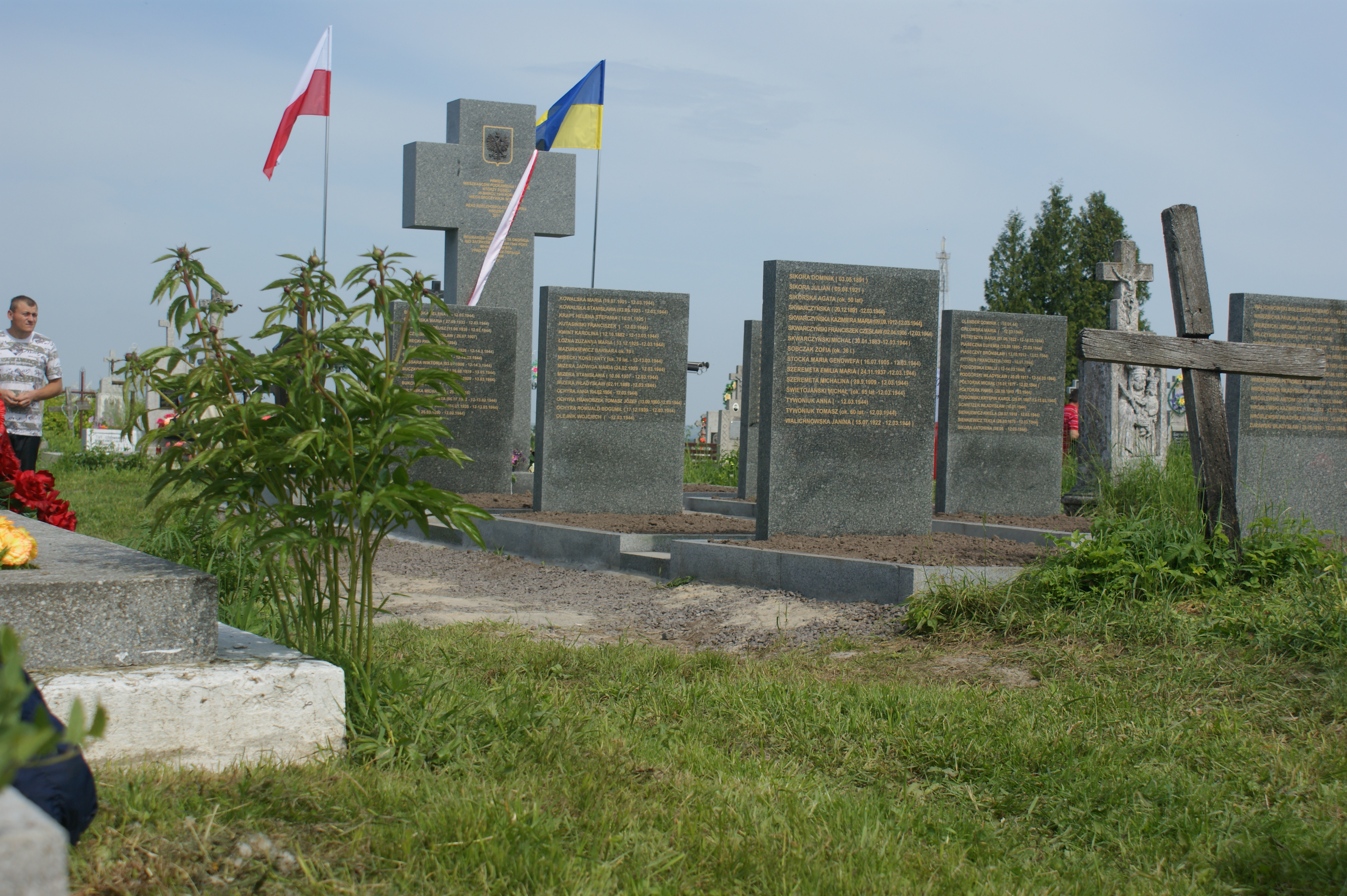 Monument of UPA victims in Podkamień